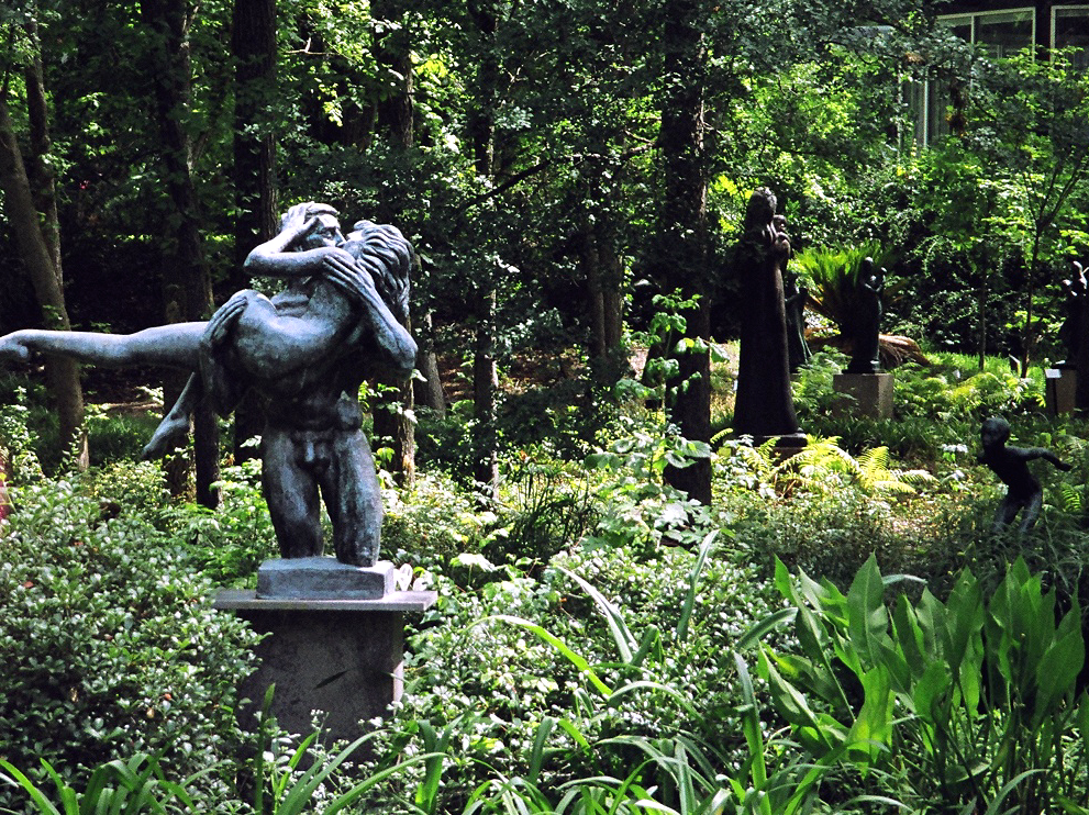 "The Kiss", bronze statue by Charles Umlauf in the The Umlauf Sculpture Garden, Austin, Texas, United States.